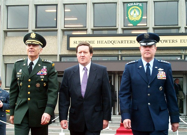 Gen. Joseph Ralston assuming command as Supreme Allied Commander Europe (SACEUR) with North Atlantic Treaty Organization (NATO) secretary-general George Robertson and the outgoing SACEUR Gen. Wesley Clark at Supreme Headquarters Allied Powers Europe in Mons, Belgium.